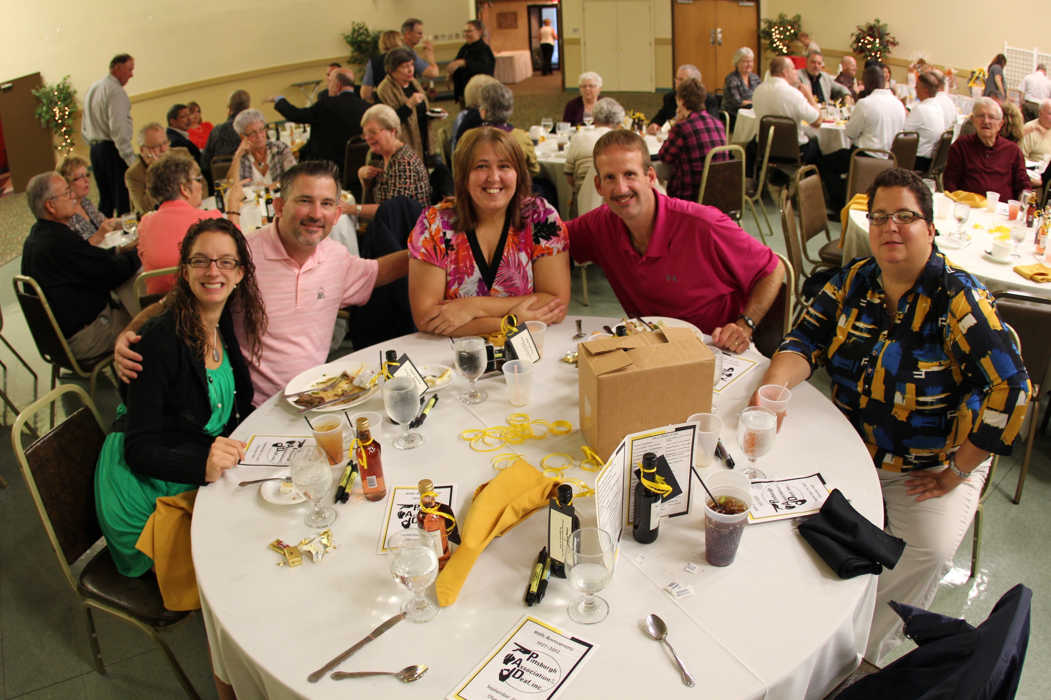 85th anniversary of the Pittsburgh Association of the Deaf